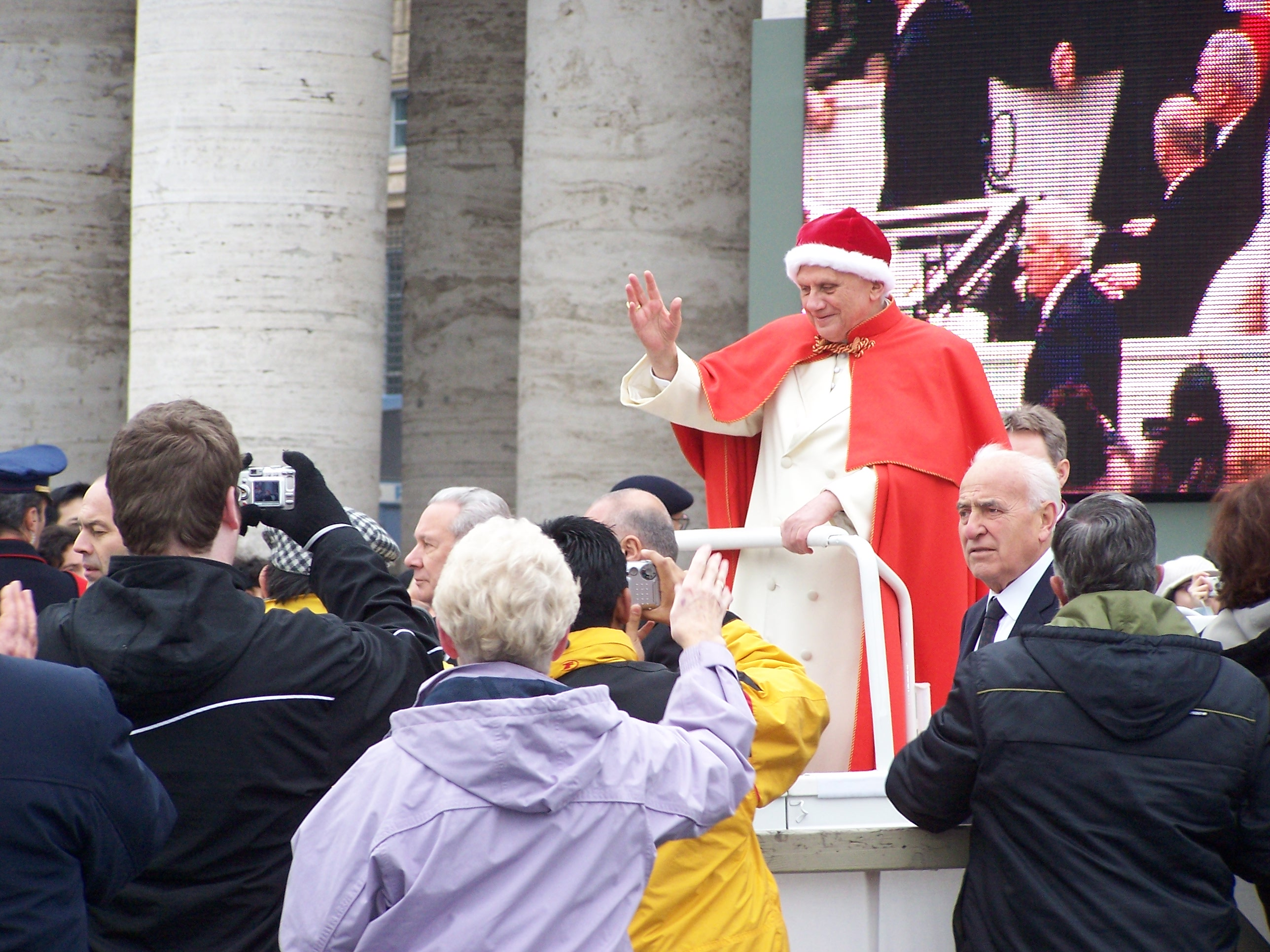 Pope Benedict XVI in Italy. On the right Camillo Cibin, former Inspector General of the Vatican Gendarmerie.